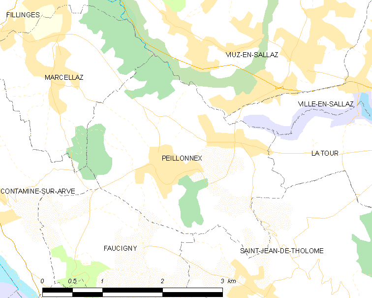 Map of French municipality Peillonnex